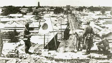 Japanese soldiers on walls of Tungchow during Tungchow Mutiny